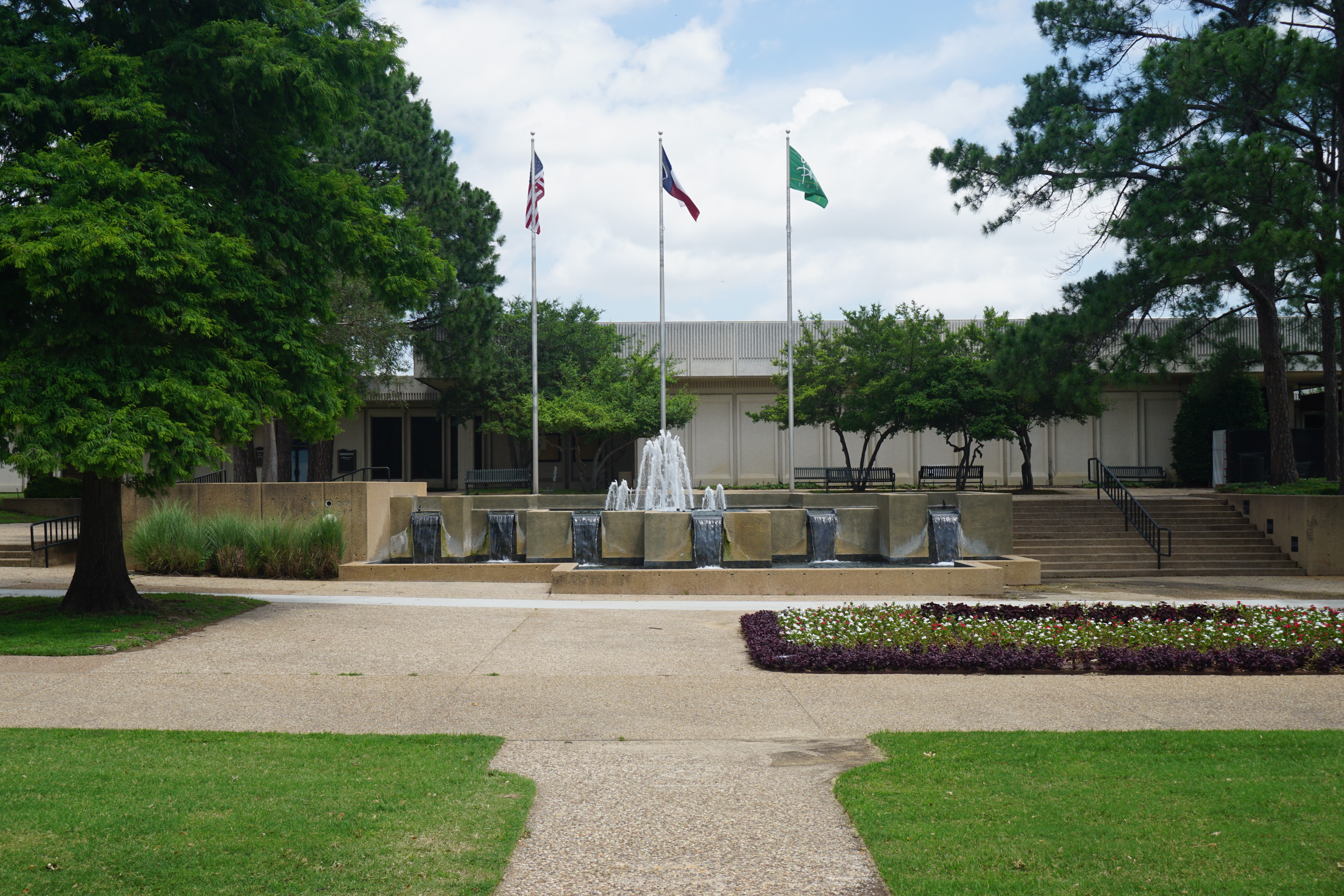 Grand Prairie City Hall in Grand Prairie, Texas (United States).